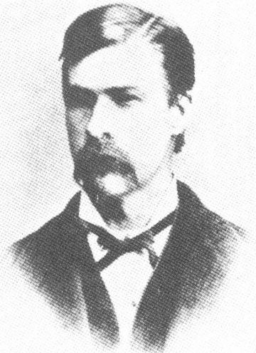 Morgan Earp historical photo, 1881. Probably taken by C.S. Fly.